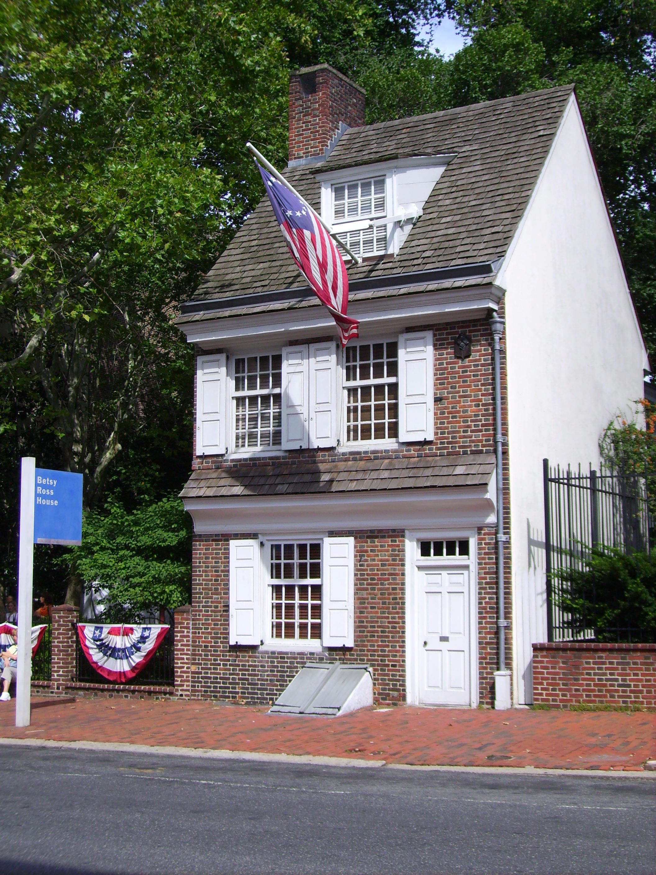 Frontside of the Betsy Ross House in Philadelphia